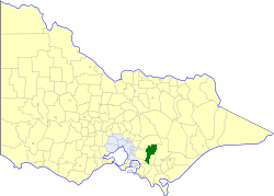 Location of the Shire of Buln Buln within Victoria.